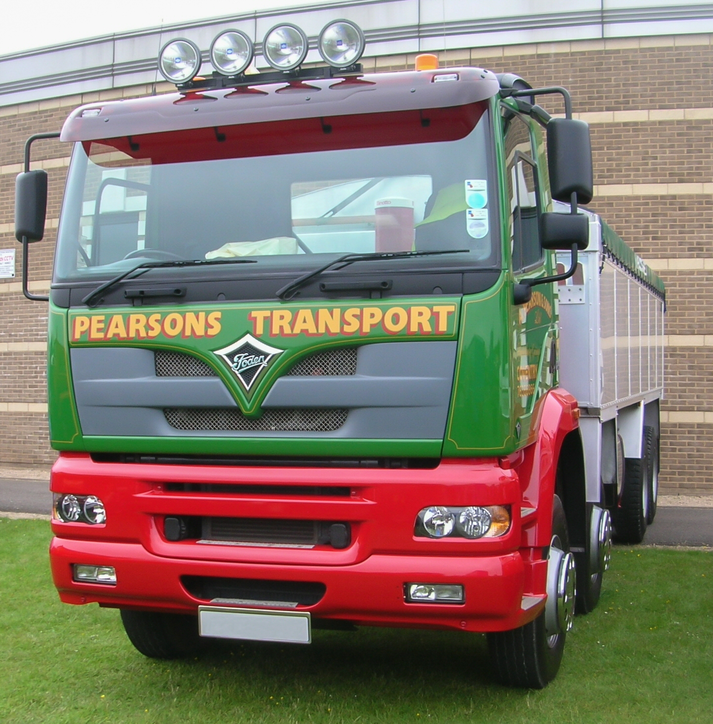 A 2004 Foden Alpha 3000. Built by Leyland Trucks. This vehicle was photographed attending the 2007 Classic Commercial Motor Show at the Heritage Motor Centre, Gaydon, UK.